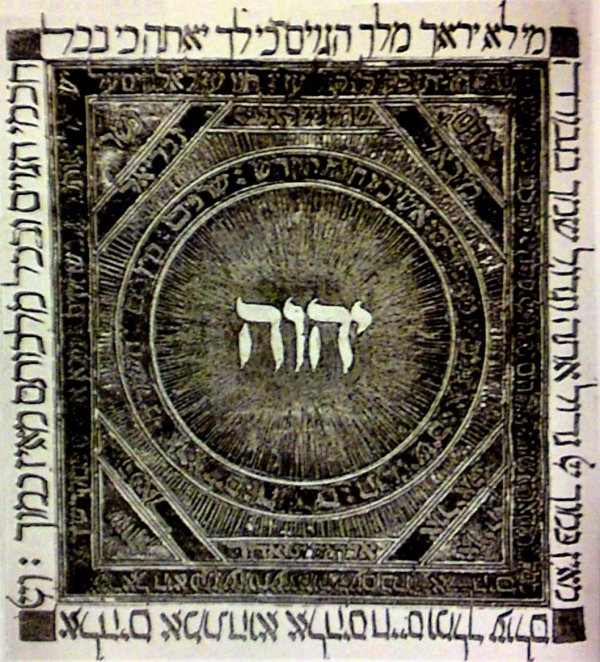 Title: Tetragrammaton. author: Sephardi Bible. date: 1385.